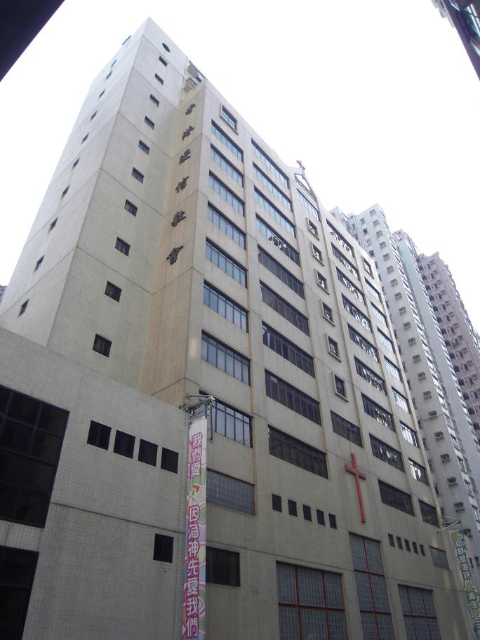 HK Baptist Church, Caine Road, Hong Kong